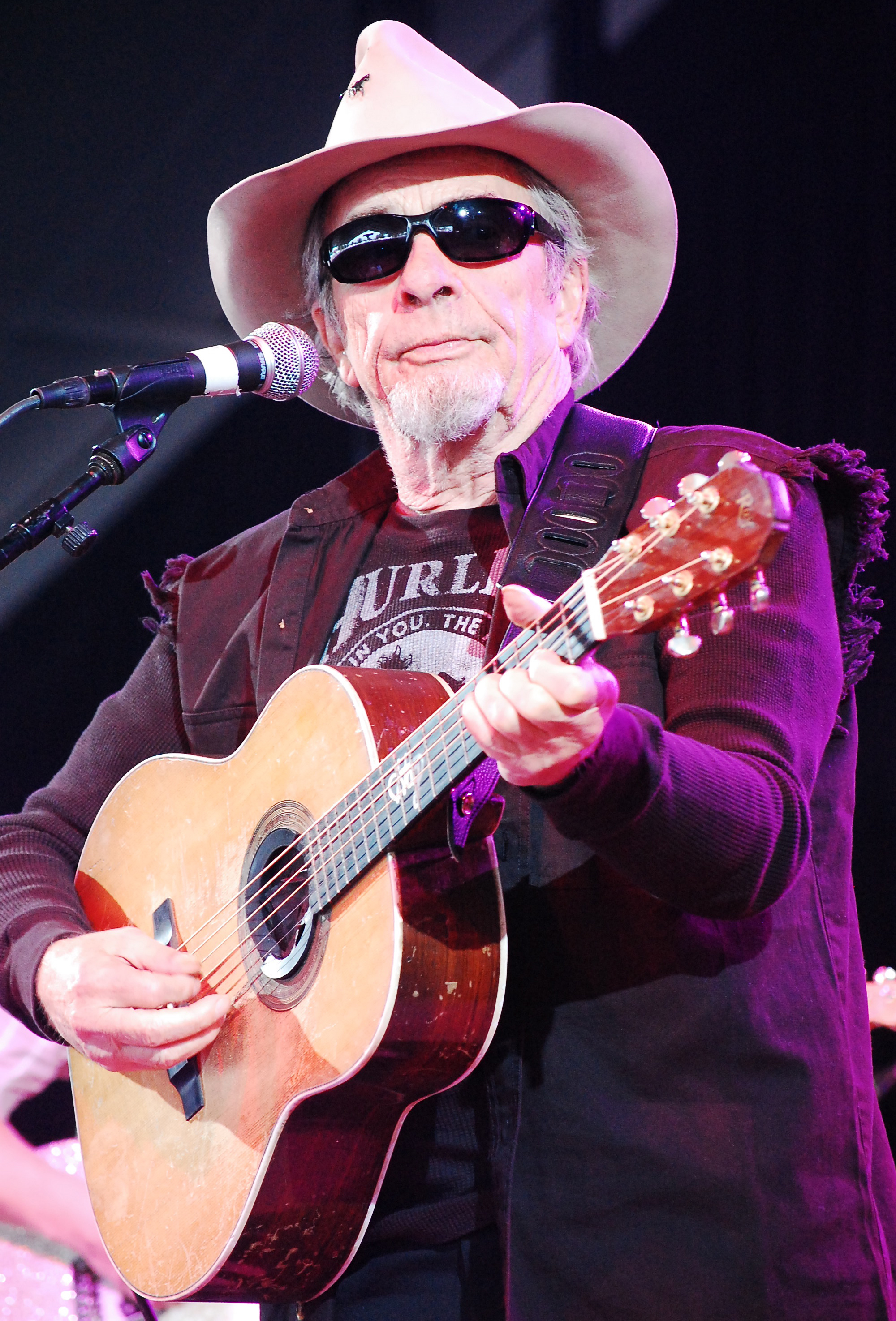 Merle Haggard performing at Bonnaroo in Manchester, Tennessee.